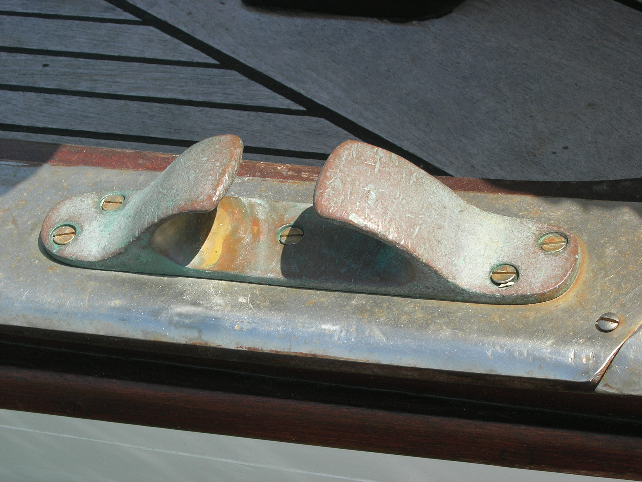 A fairlead.